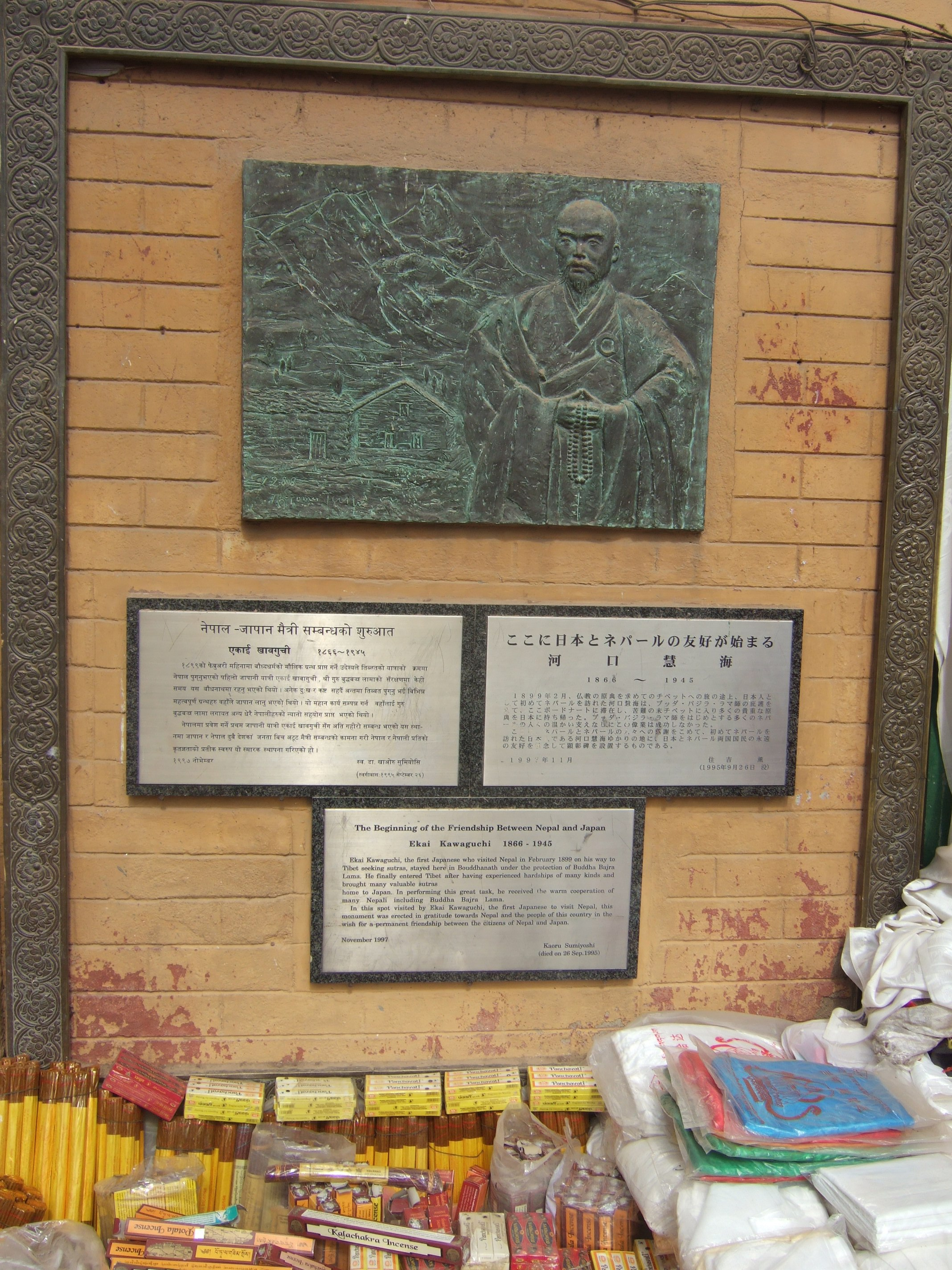 Commemorative plaque for Ekei Kawaguchi (1866-1945) in Bodnath (Nepal)